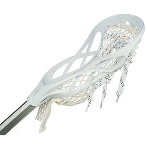 A men's lacrosse stick head